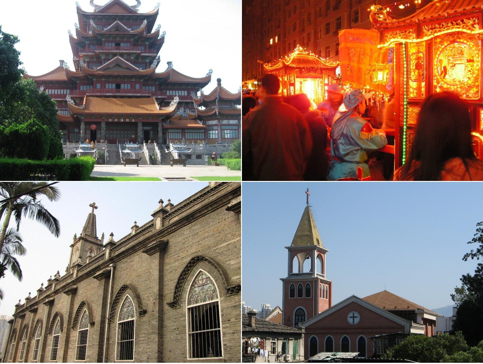 Religion in Fuzhou, from top, left to right: Buddhist Xichansi Temple in Gulou District; Taoist parade of gods in Luoyuan County; Roman Catholic Fanchuanpu (Huăng-sùng-puō) Cathedral in Cangshan District; Protestant Church of Heavenly Peace in Cangshan District.